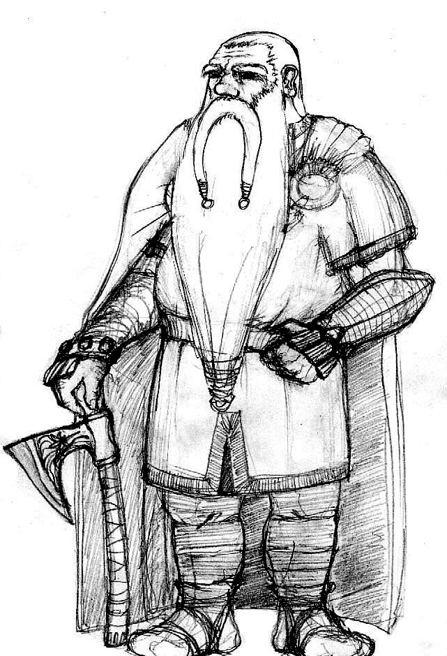 dwarf